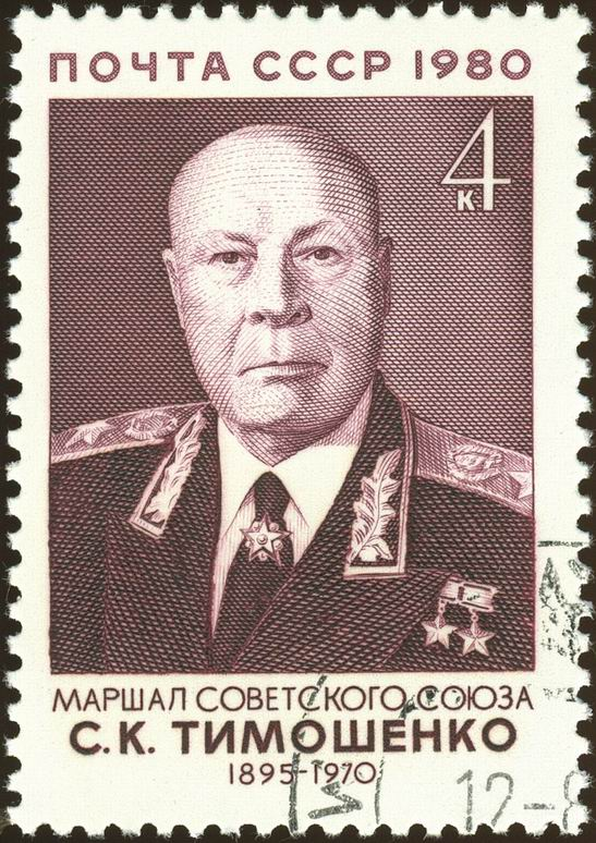 A USSR stamp, Military persons of the USSR, Marshal S. K. Timoshenko, 1980